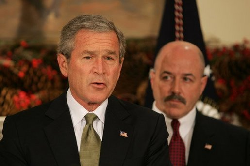 President George W. Bush announces his nomination of Bernard B. Kerik, the New York police commissioner during the Sept. 11, 2001 terrorist attacks, as the new Department of Homeland Security Secretary in the Roosevelt Room Friday, Dec. 3, 2004. White House photo by Tina Hager